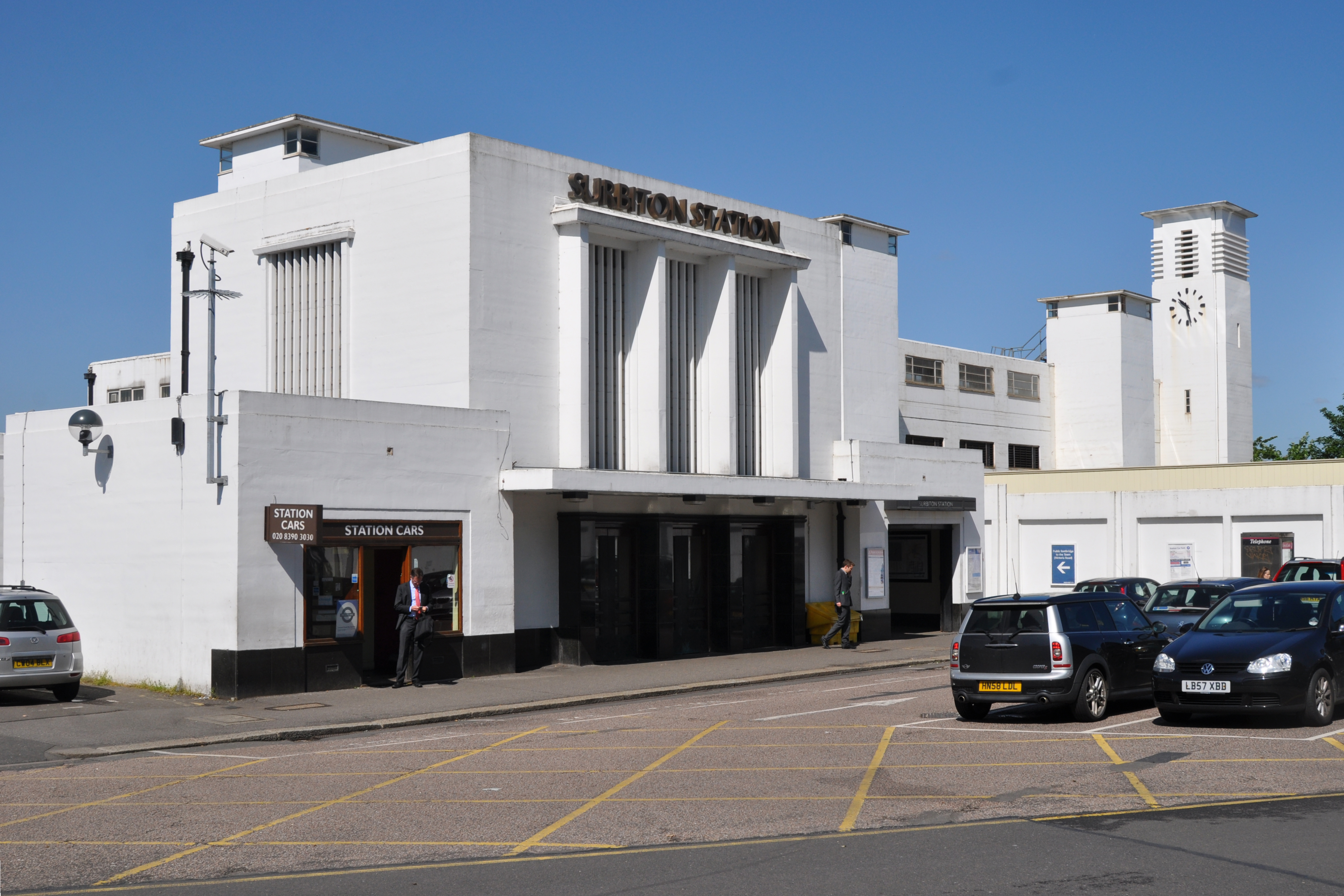 Surbiton railway station Wikidata has entry Q2526353 with data related to this item.